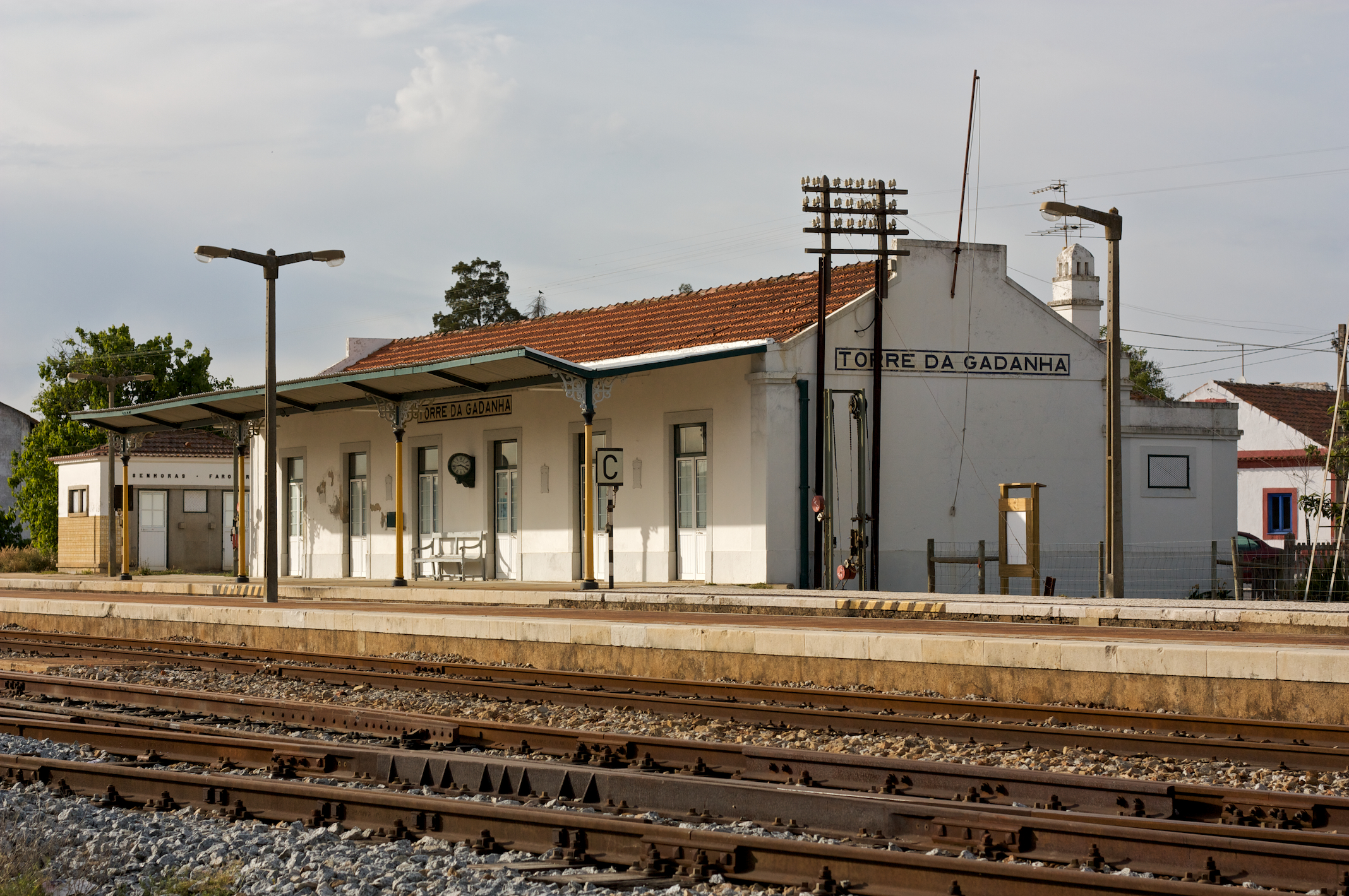 Railway Station of Torre de Gadanha